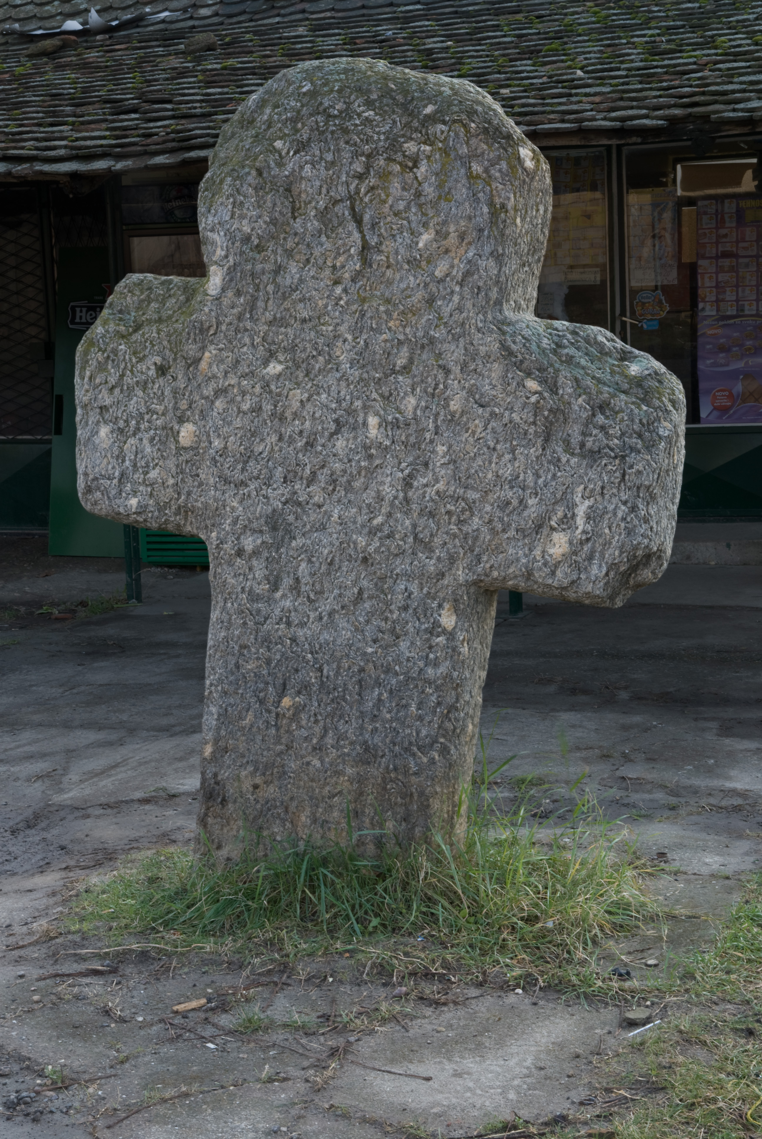 Big stone cross in Jabuka, Pančevo